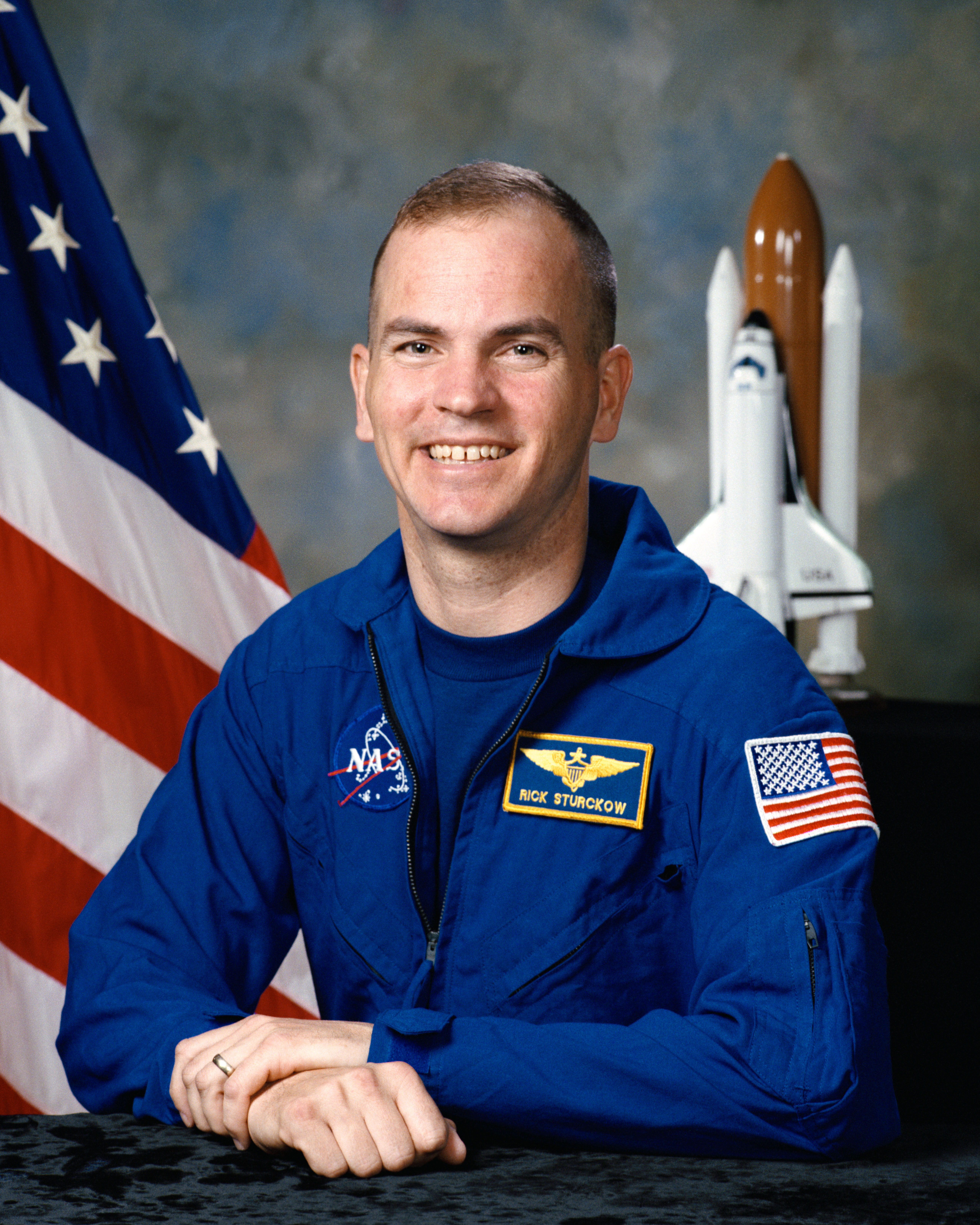 portrait astronaut Frederick W. Sturckow